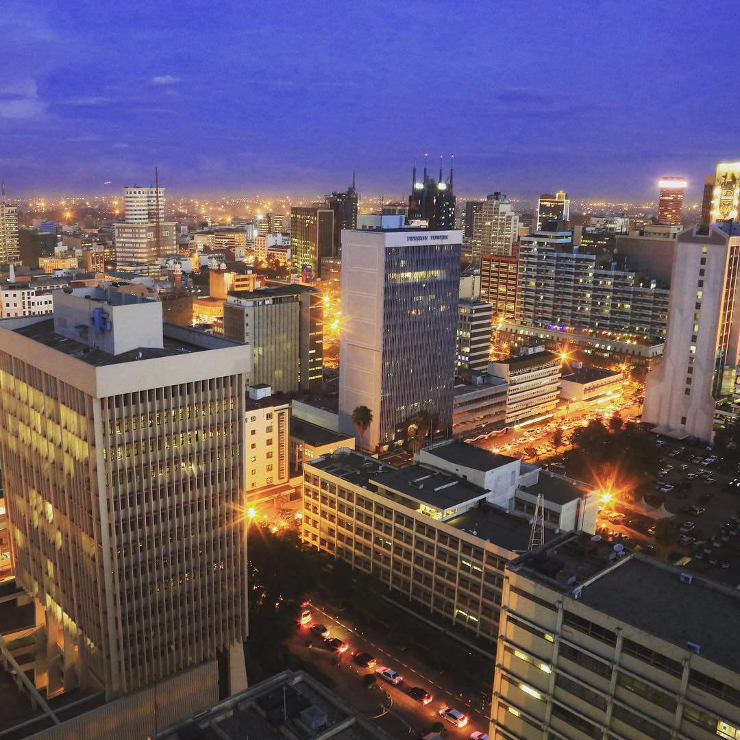 Nairobi downtown